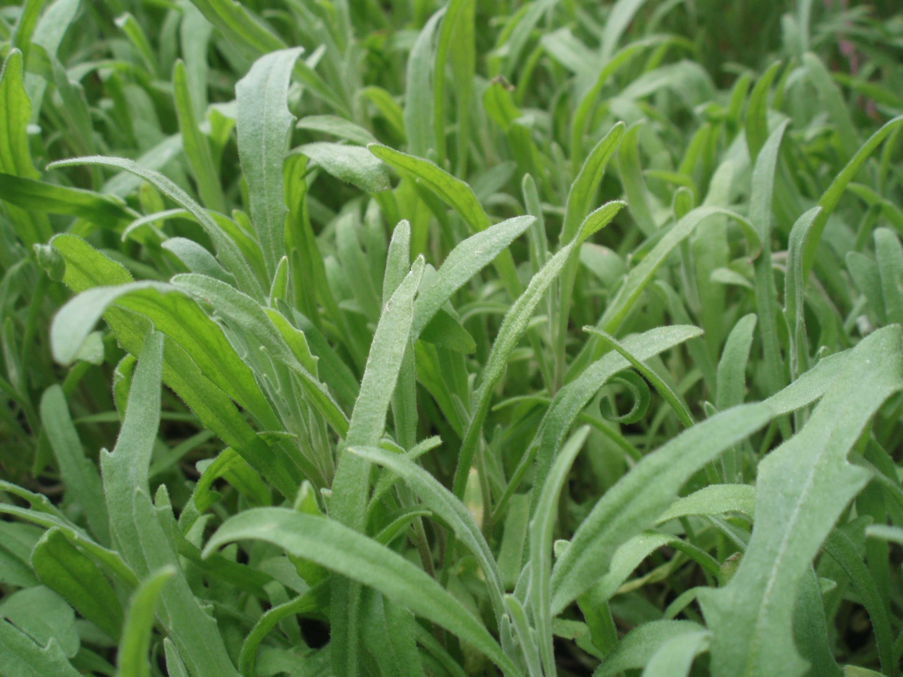 night scented stock leaves close up